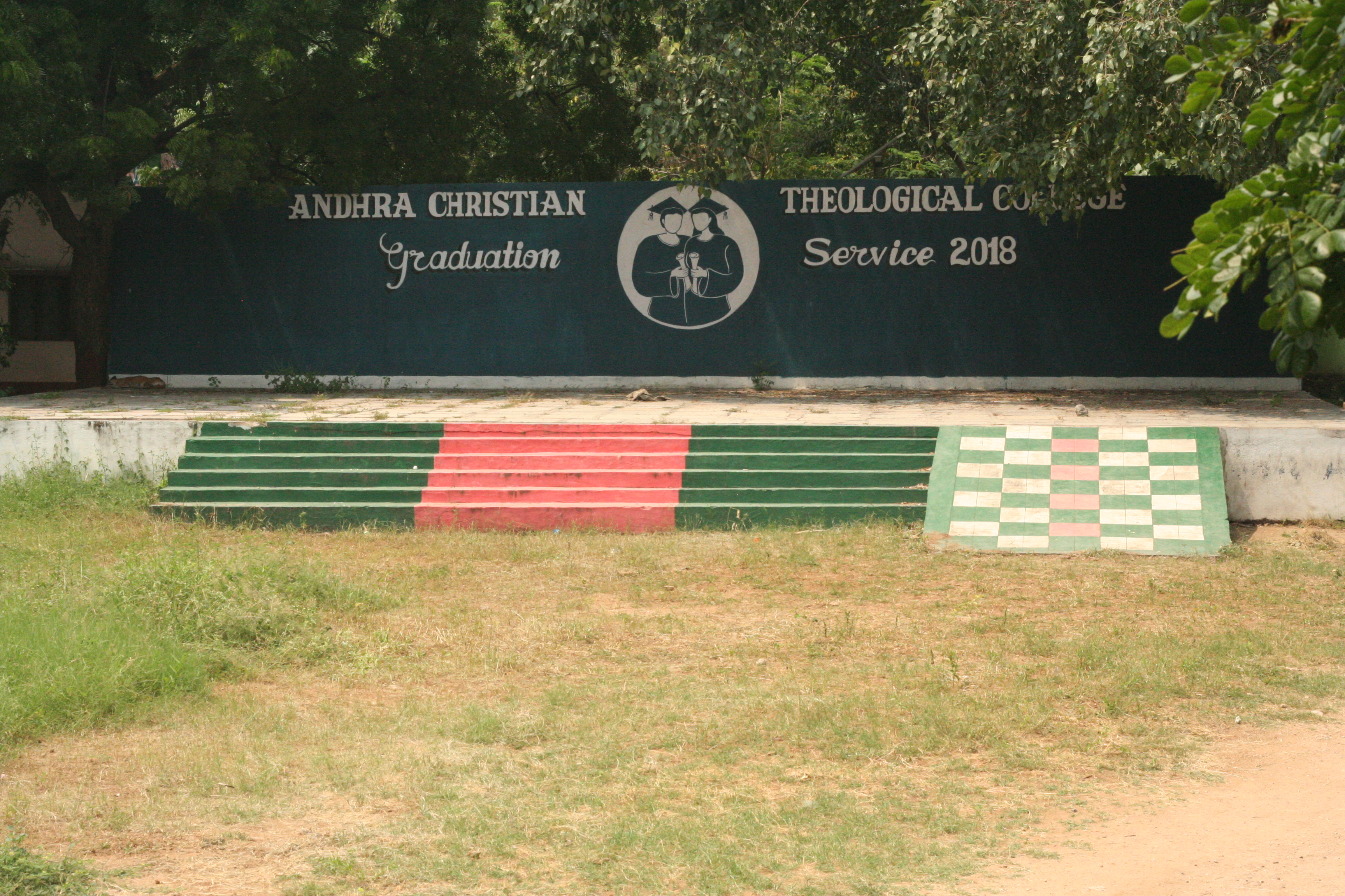 ACTC Stage